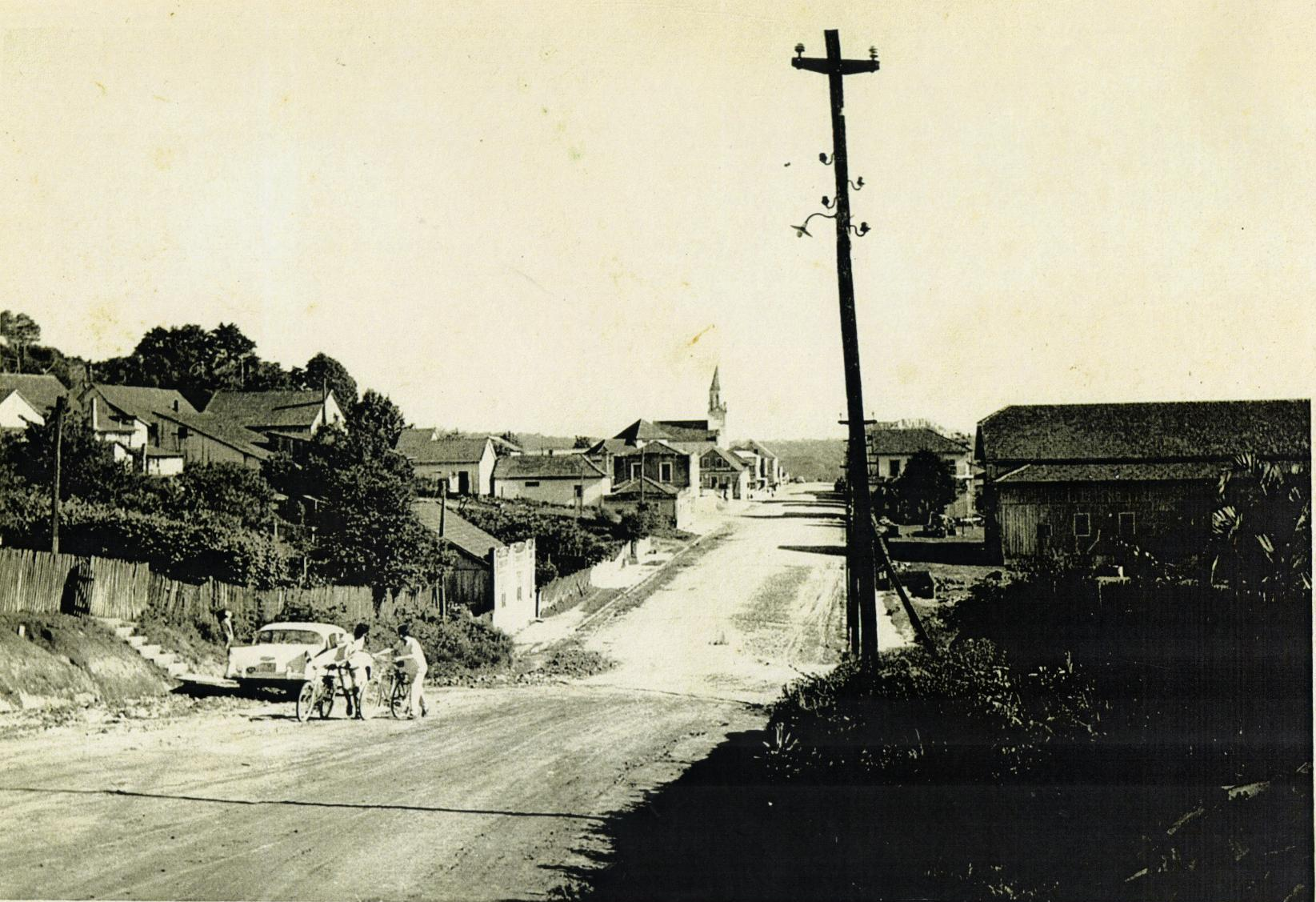 Picture of Itaiópolis/SC in Brazil